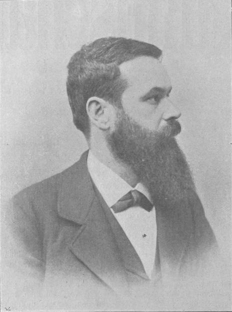 Rudolf Hawel (1860-1923), Austrian writer